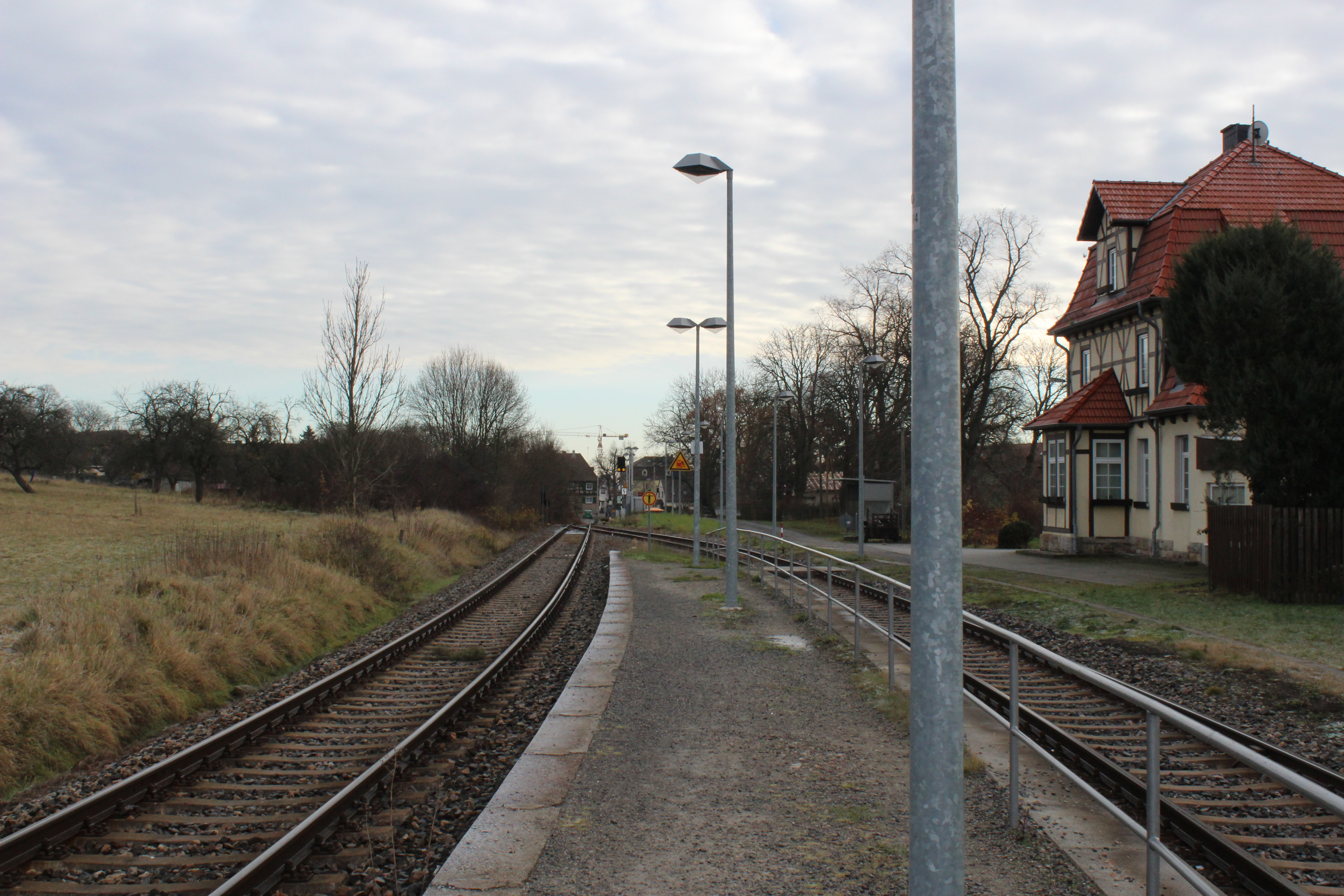 train station Holzdorf (b Weimar), platforms